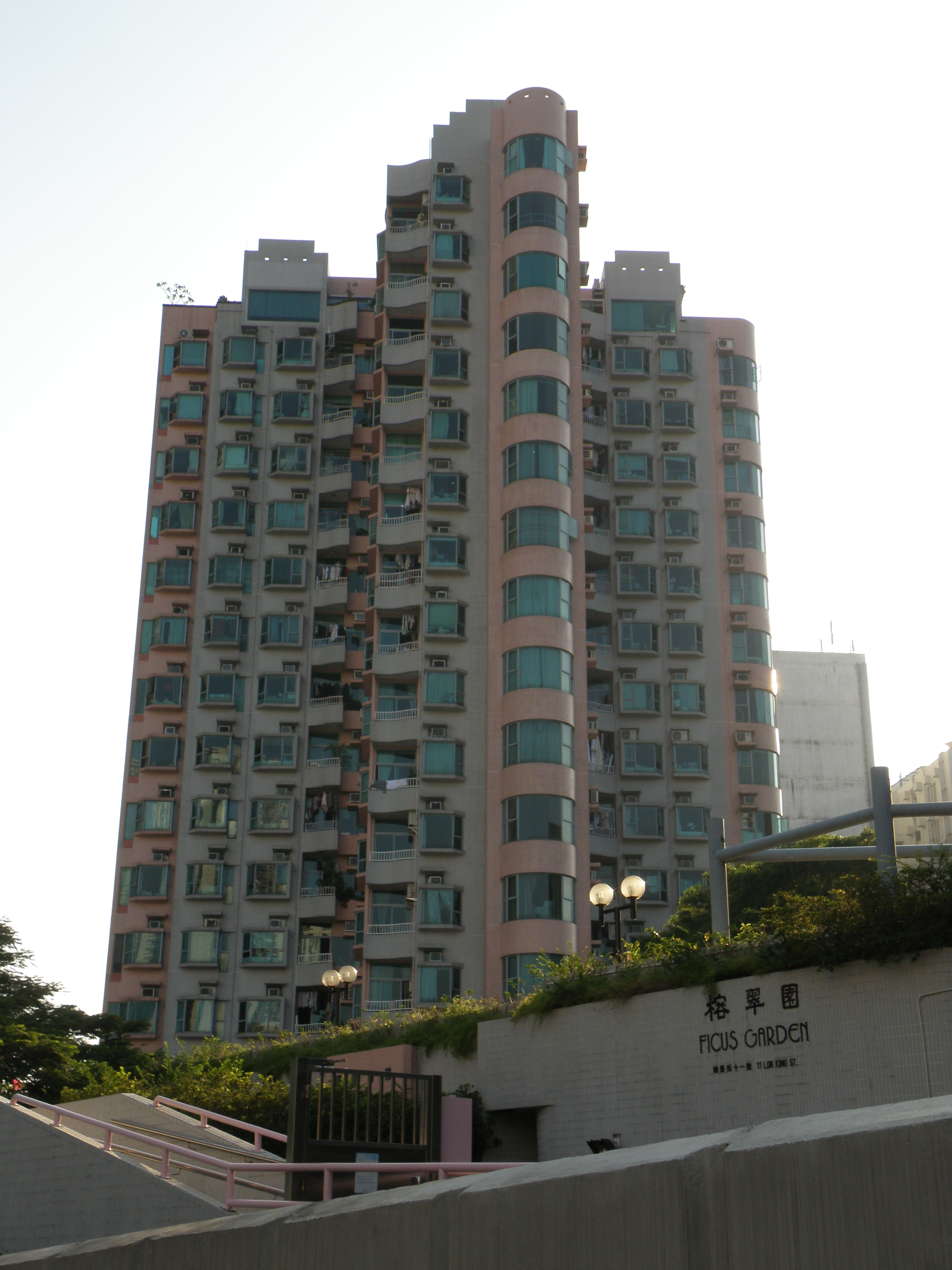 Ficus Garden in Fo Tan, Hong Kong.